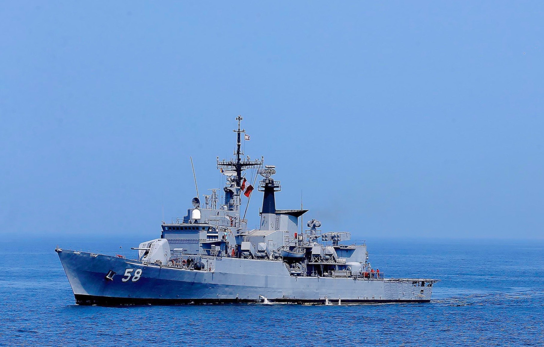 BAP Quiñones (FM-58) in November 2012